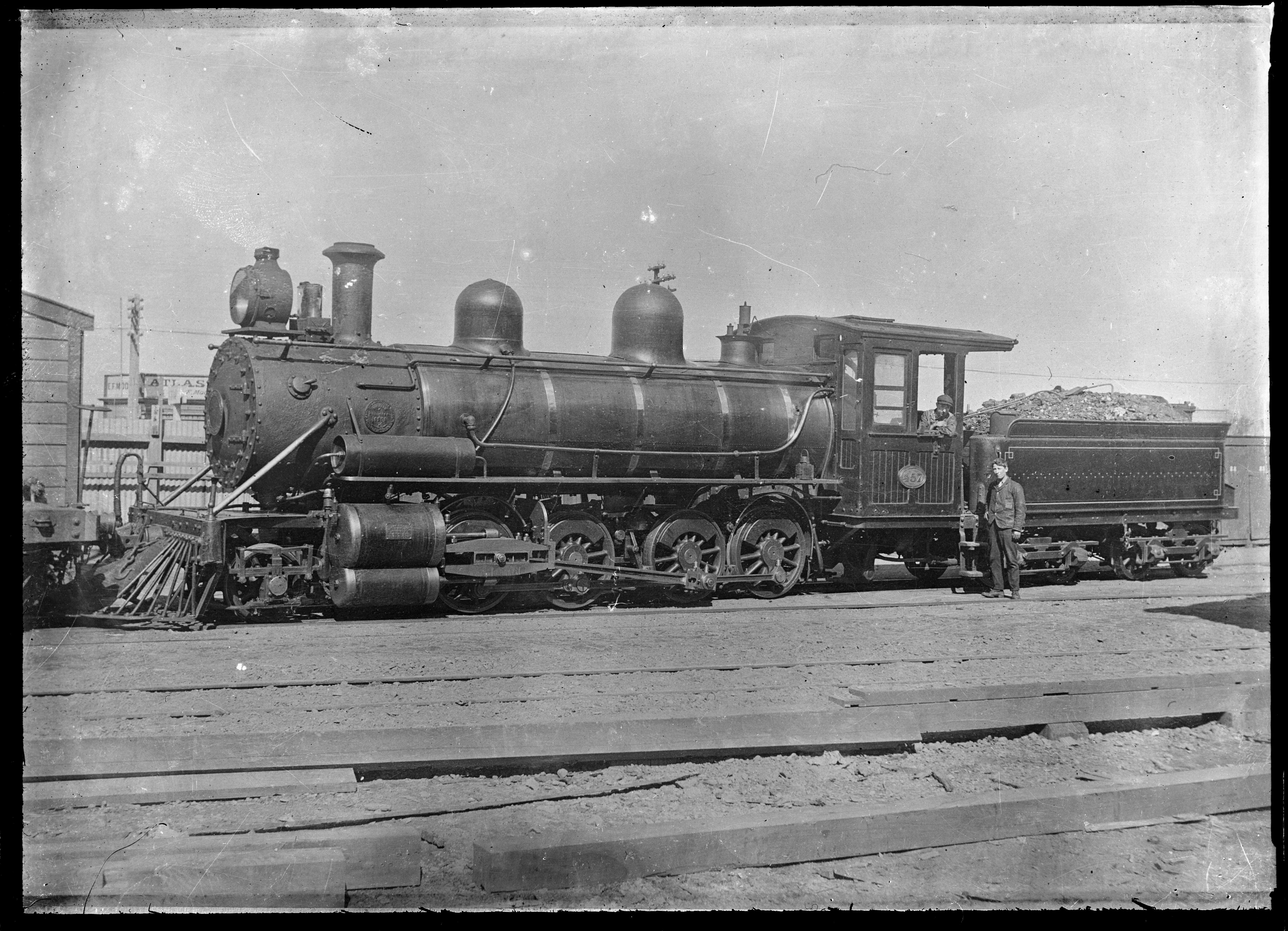 Oa Class steam locomotive NZR 457, 2-8-0 type, with two men (one named S Wallis). Photograph taken by Albert Percy Godber. Name from the original print in Pa1-q-101 (Godber Album vol 108, p 37)